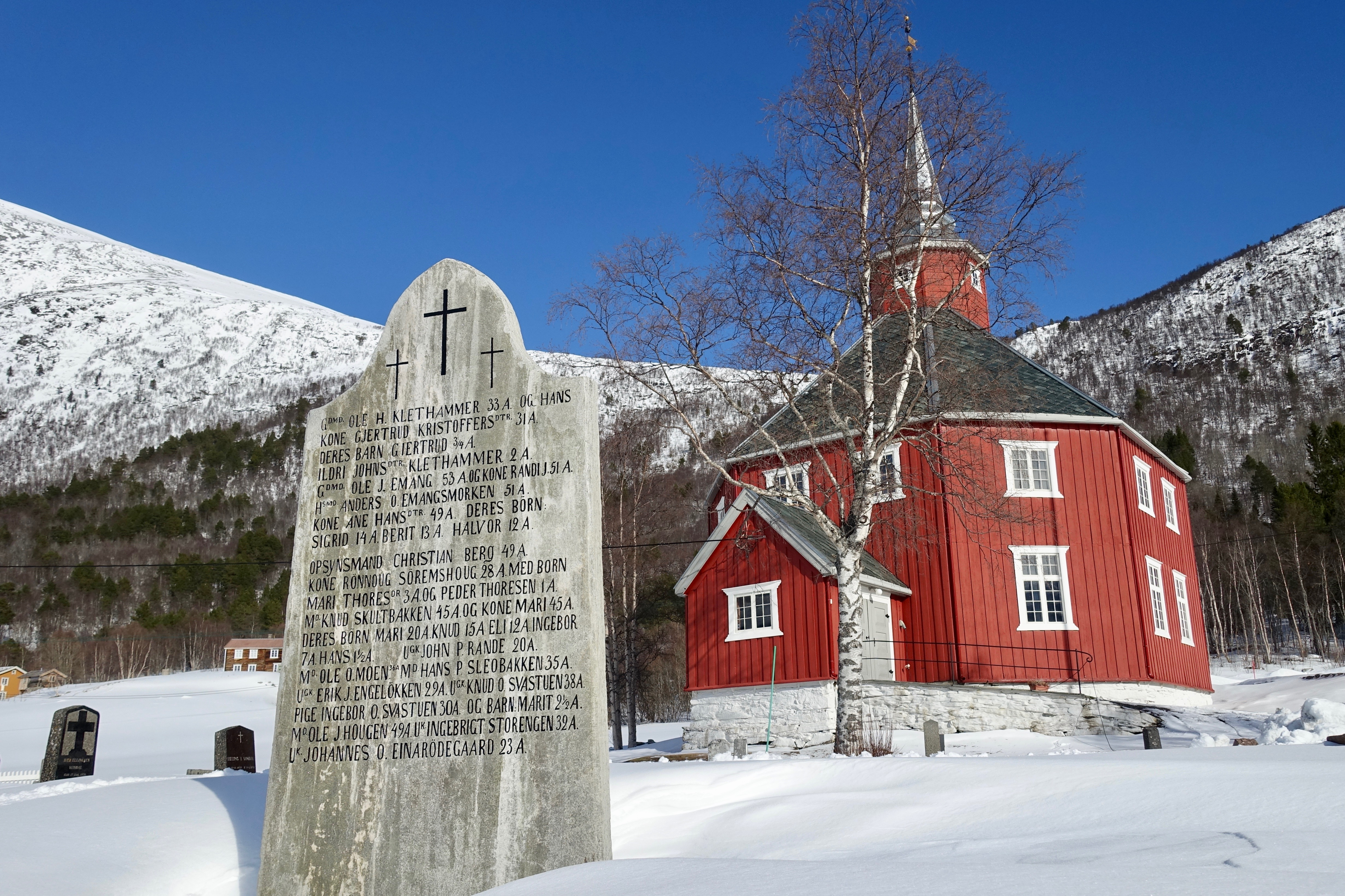 Lønset kirke/kyrkje, octagonal wooden church built 1863, in Oppdal, Trøndelag, Norway. Memorial stone of the Kletthamran avalanche 1868-02-12 where 32 people died (Minnestein over Kletthamranskredet, Norgeshistoriens verste snørasulykke natt til 12. februar 1868). Snow, blue sky, graveyard, etc. Photo 2019-03-19.